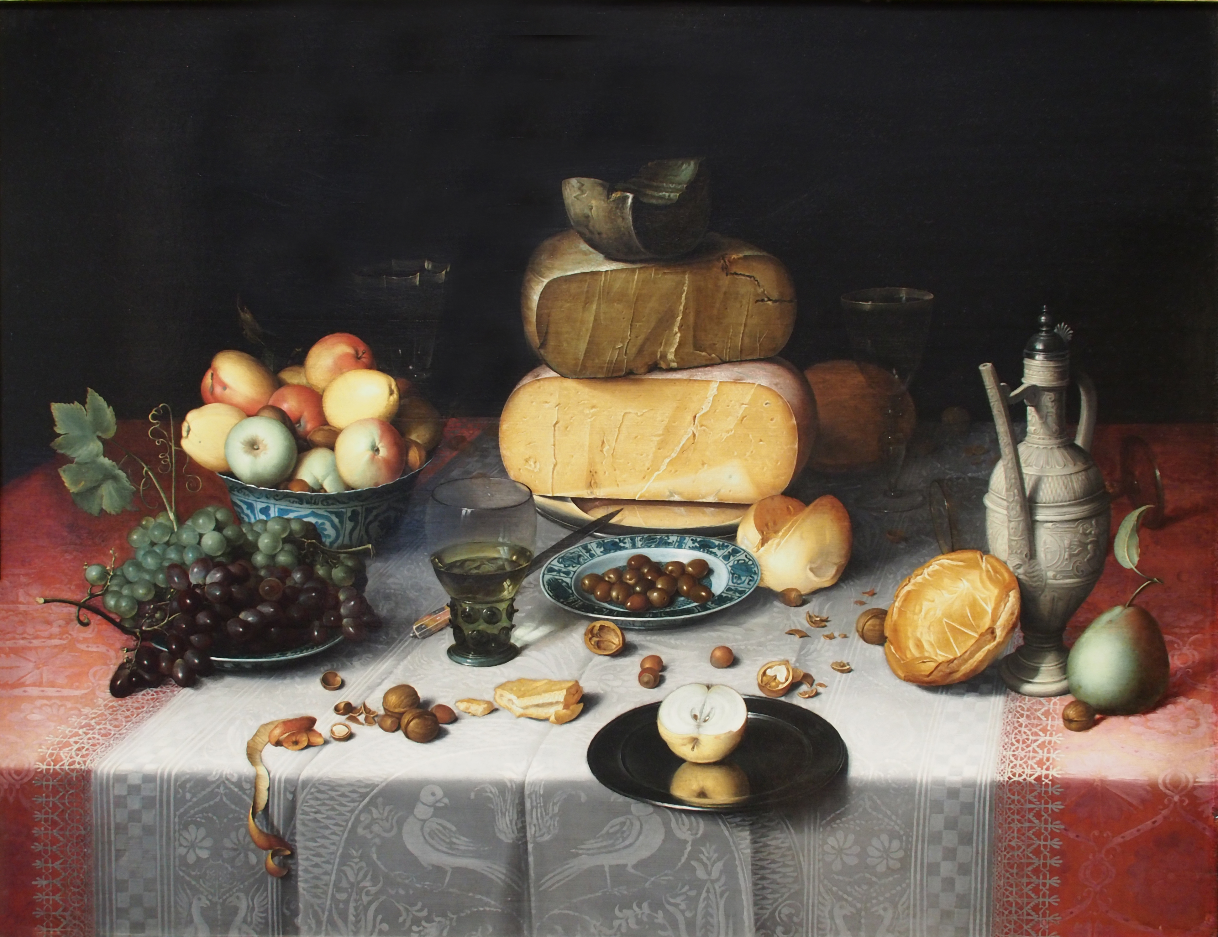 A table with a white linnen and pink silk damask is laid with a pewter dish containing three cheeses, before which a Chinese dish with nuts or olives and another pewter dish with half an apple. To the right stands a Siegburg ware jug, to the left a Chinese bowl with apples and a pewter plate with white and blue grapes. Also a rummer, some glasses, a bread roll, a knife and a pear.